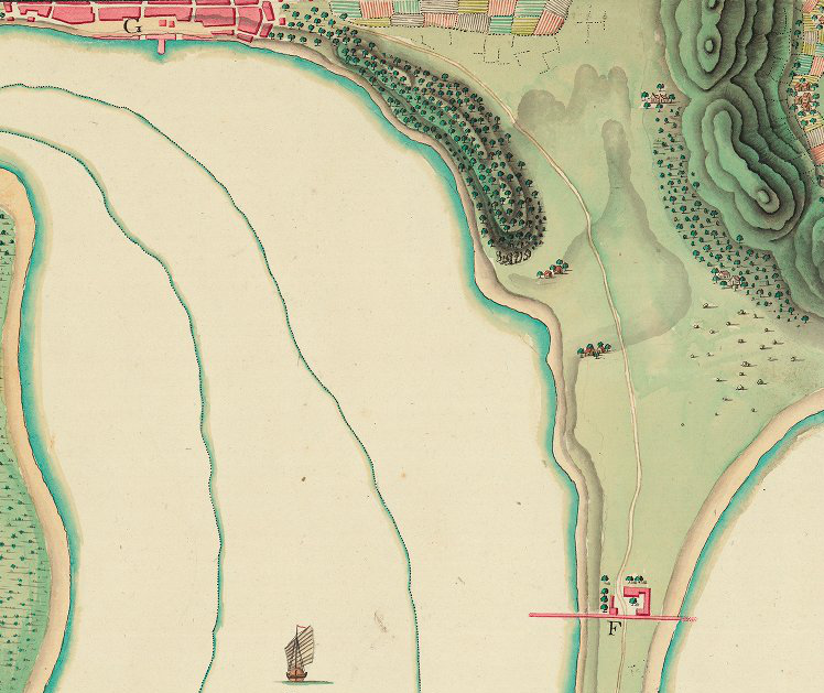 An inset of Cazablanc (i.e., Qianshan; G) and the border wall (F) from "A Plan of the Town of Macao and of Its Portuguese Environs".